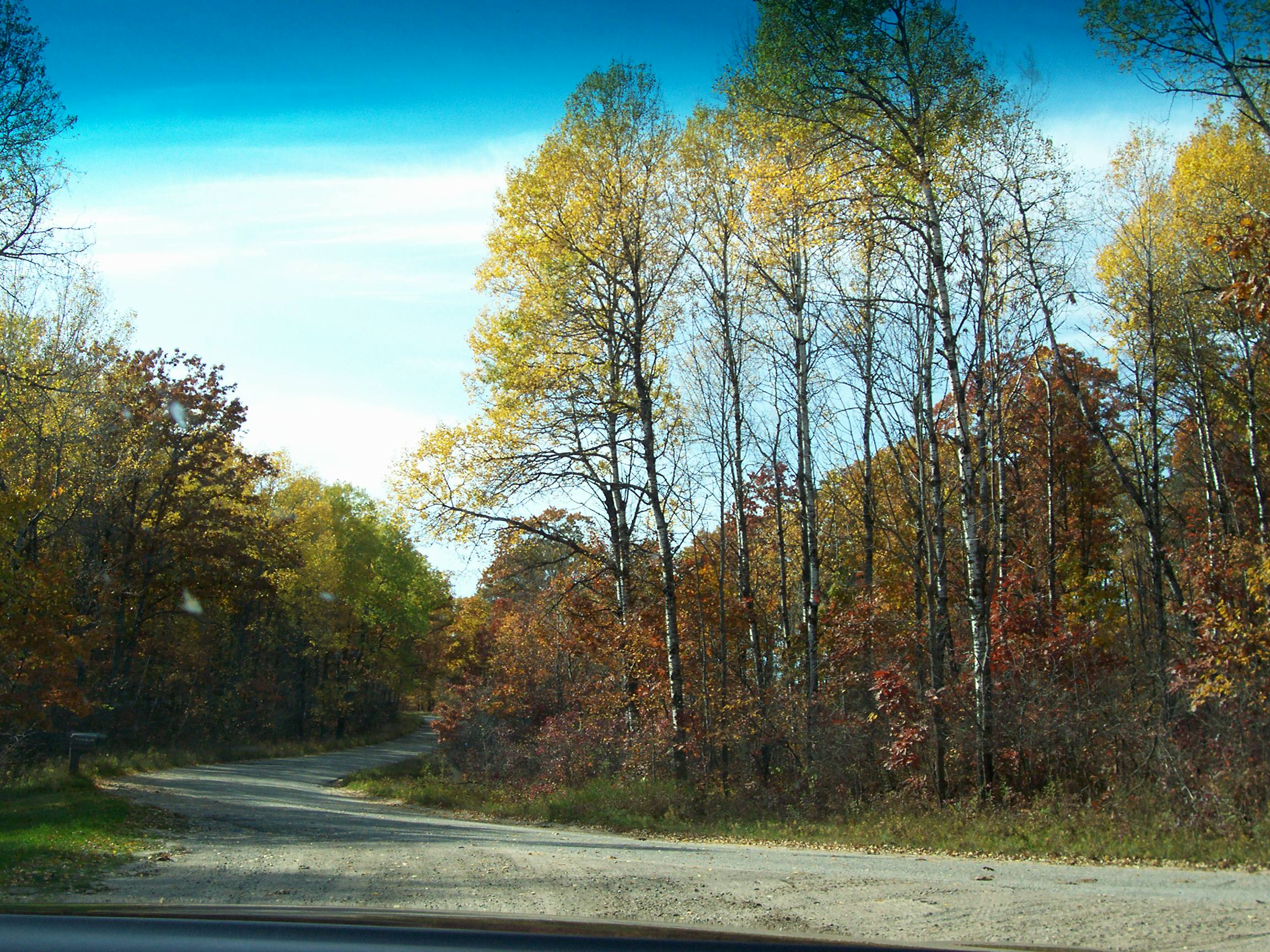 Rural northeast Marinette County, Wisconsin woods in fall. Taken near Wausaukee, Wisconsin. This image was taken on October 7, 2006 by User:Royalbroil.